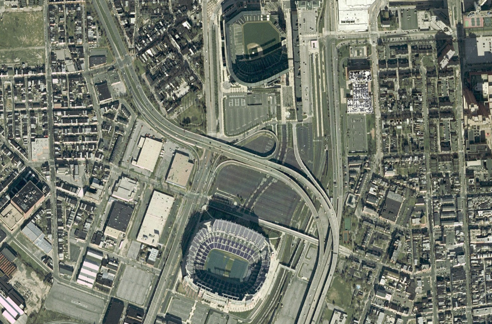 Camden Yards Sports Complex satellite view, nasa world wind 1.3.5